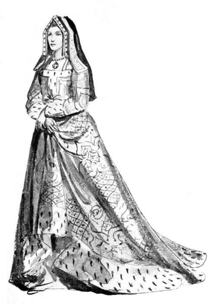 15th century costume - Elizabeth of York - illustration by Percy Anderson for Costume Fanciful, Historical and Theatrical, 1906